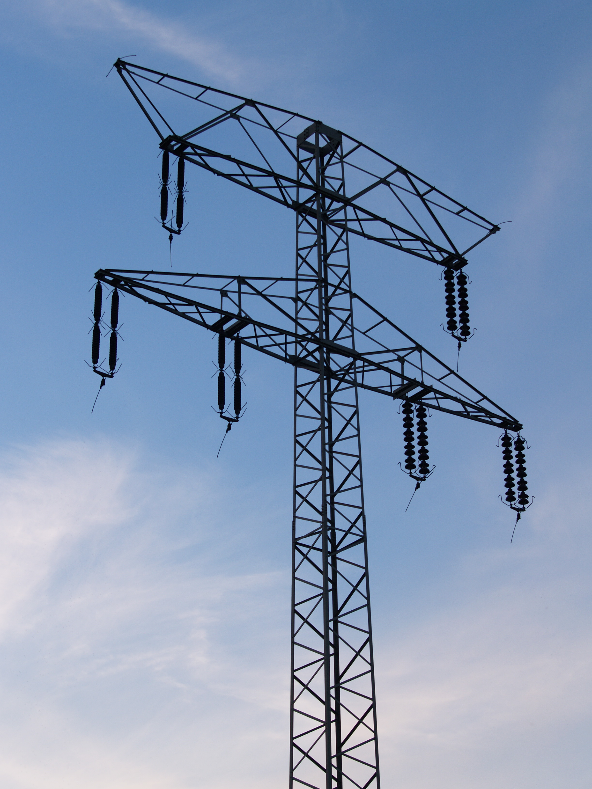 Old electricity pylon at Recklinghausen substation (museum) - "power outage"